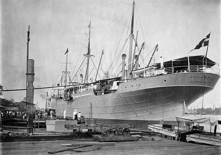 The MS Selandia in the Bangkok port in 1912